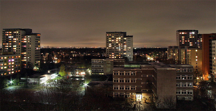 Thermometersiedlung, Thermometer estate at night. Right the Mercatorweg, behind the higher buildings the Osdorfer Street. The central lower buildings form the Mercator elementary school.